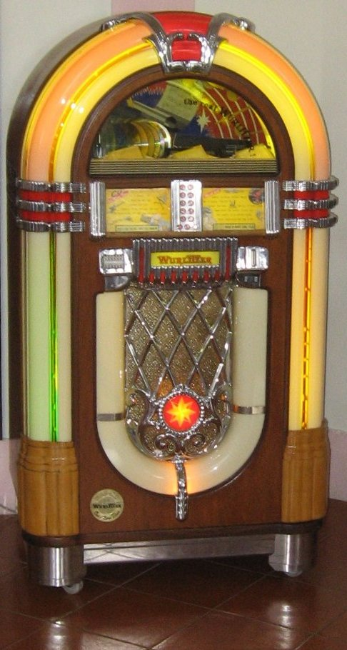 Reproduction Wurlitzer 1015 Jukebox in the Hotel Nacional de Cuba, Havana